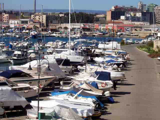 Desciption: Molo Sant'Eligio (Taranto) Photographer: --Asia Date: 15.4.2006